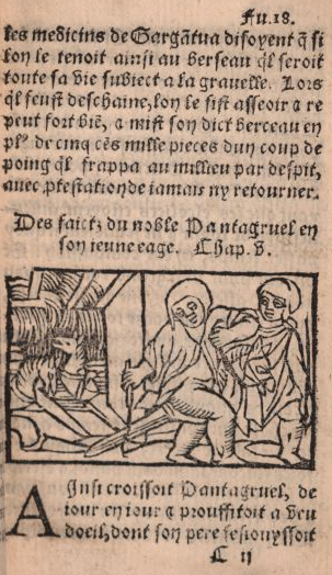 Pantagruel,edit. Francois Juste], Lione 1542